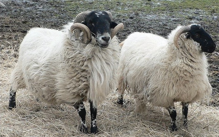 Scottish Blackface ewe and ram photo taken in 2006 by Beth Maxwell Boyle